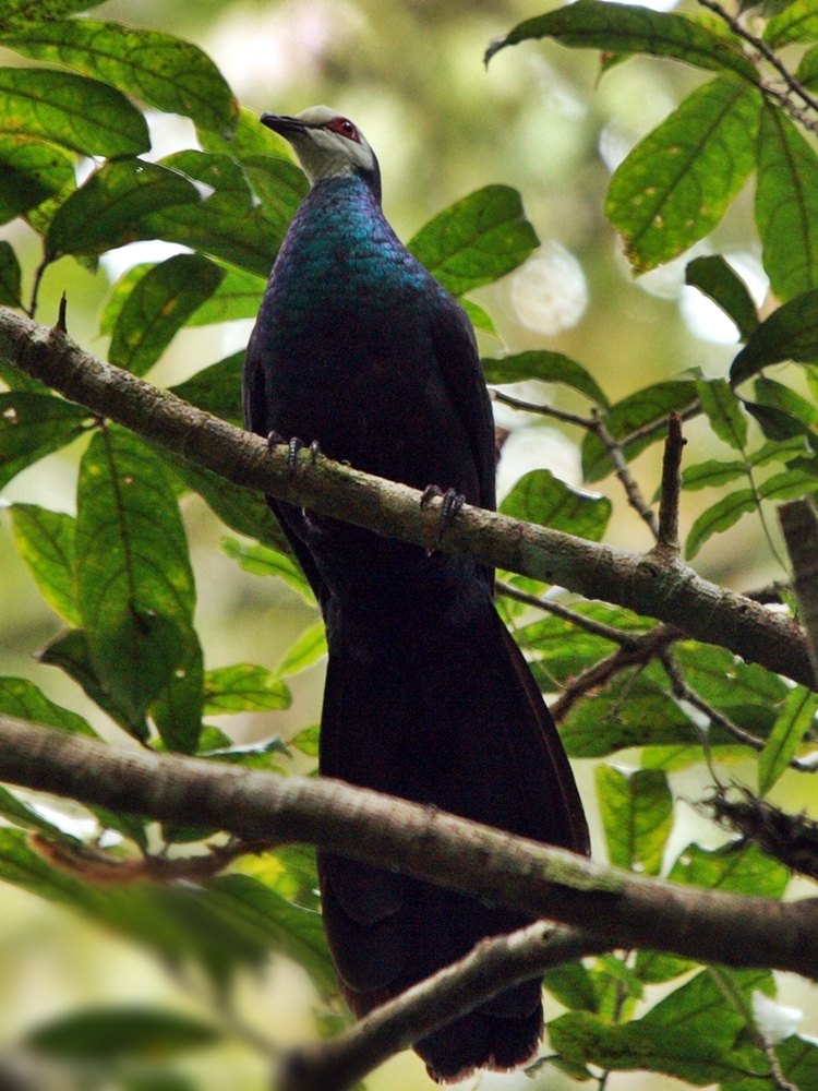 White-faced Dove (Turacoena manadensis) at Mount Mahawu, North SulawesiBahasa Indonesia: Merpati-hitam sulawesi (Turacoena manadensis) di Gunung Mahawu, Sulawesi Utara